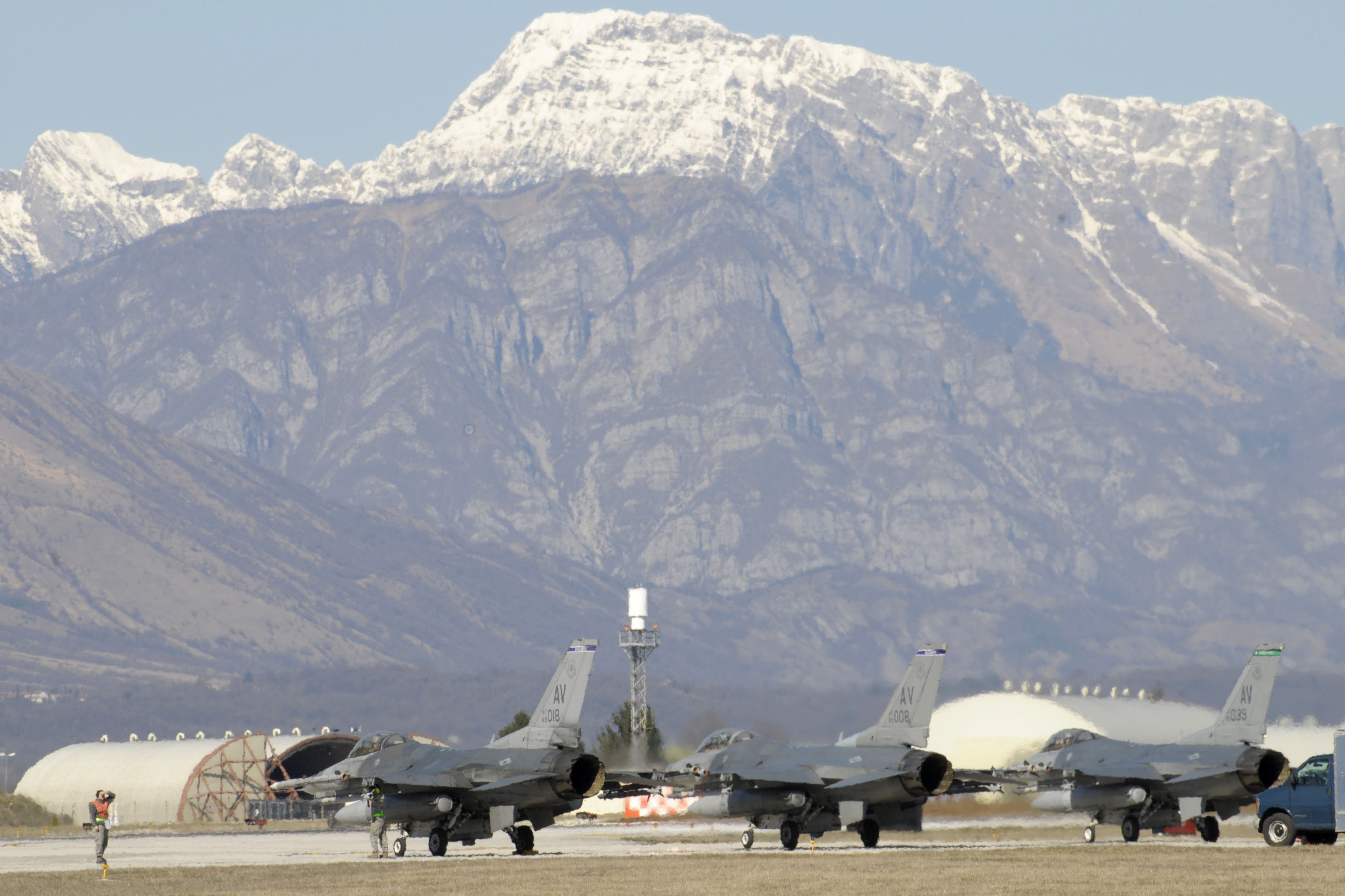 AVIANO AIR FORCE BASE, Italy (March 20, 2011) U.S. Air Force F-16 Fighting Falcons return to Aviano Air Base after supporting Operation Odyssey Dawn. Joint Task Force Odyssey Dawn is the U.S. Africa Command task force established to provide operational and tactical command and control of U.S. military forces supporting the international response to the unrest in Libya and enforcement of United Nations Security Council Resolution 1973. (U.S. Army photo by Staff Sgt. Tierney P. Wilson/Released)